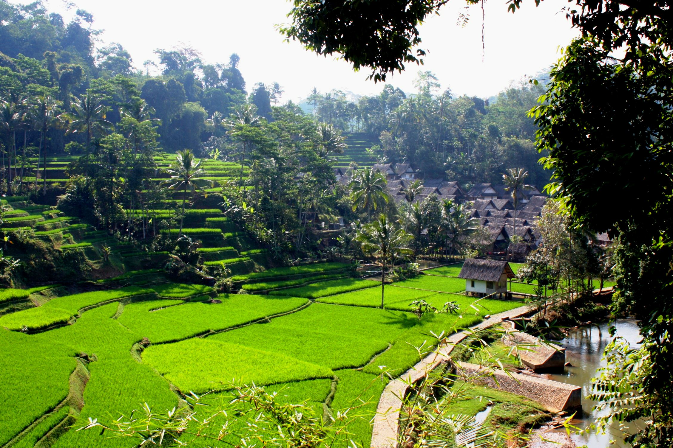 According to the data from Neglasari village, the surface soil of Kampung Naga hills with those used for land productivity can be fertile. Area of land in Kampung Naga is one of half a hectare, mostly used for housing, yards, ponds, and the rest is used for agriculture rice harvested twice a year.